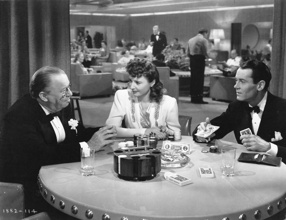 Promotional still from the 1941 film The Lady Eve, published in National Board of Review Magazine. L-R: Charles Coburn, Barbara Stanwyck, Henry Fonda